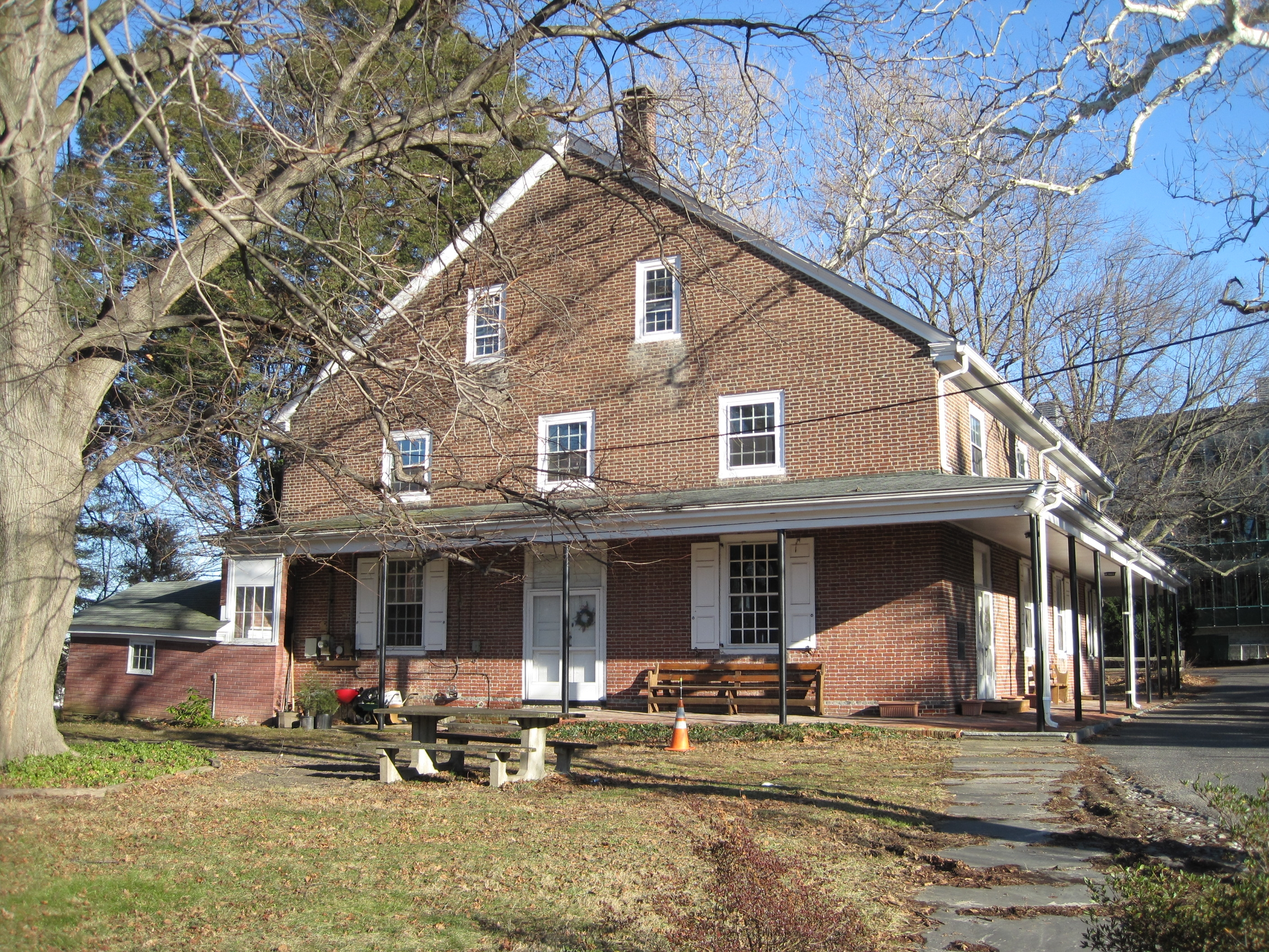 The Woodbury Friends' Meeting house was built in beginning in 1715 with the west side. The building was constructed on a site which cost 3 pounds. The east portion of the building was added in 1785. Following the Battle of Red Bank in Revolutionary War in 1777 the Meetinghouse was used as a hospital for Hessian soldiers.